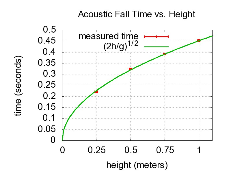 The figure shows experimental data for the acoustically measured fall time of a small steel sphere falling from various heights. The data is in good agreement with the predicted fall time of sqrt(2h/g), where h is the height and g is the acceleration of gravity. (Data courtesy of E.R. Courtney.)